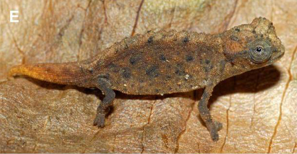 Brookesia micra male on a leaf.